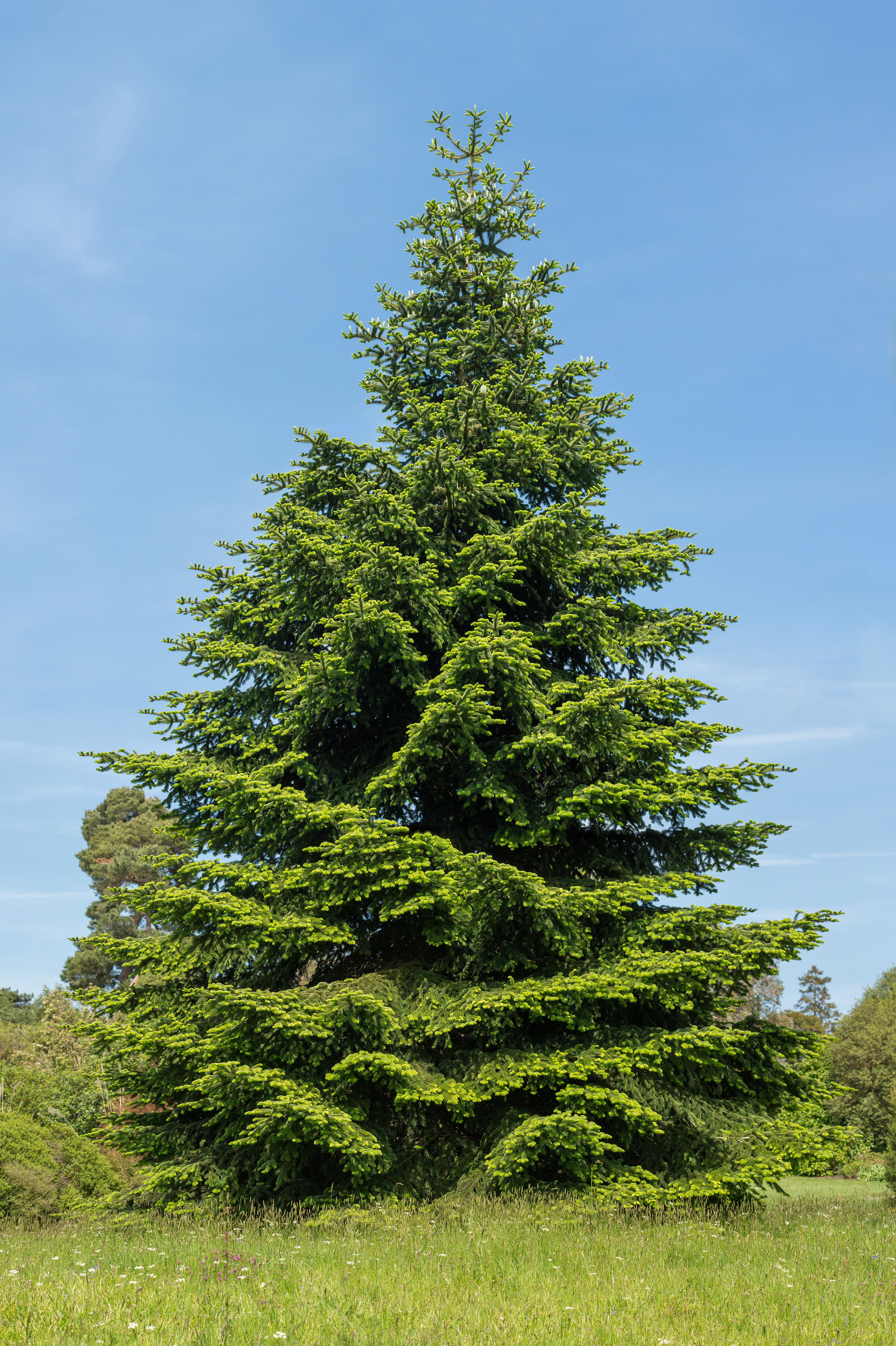 Abies pinsapo var. tazaotana, a variety of Spanish Fir native to Morocco. Taken in the spring at the Botanical Gardens of Wakehurst Place in England.